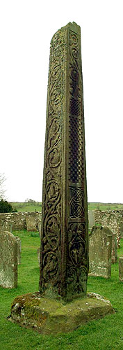 The Bewcastle Cross, image from